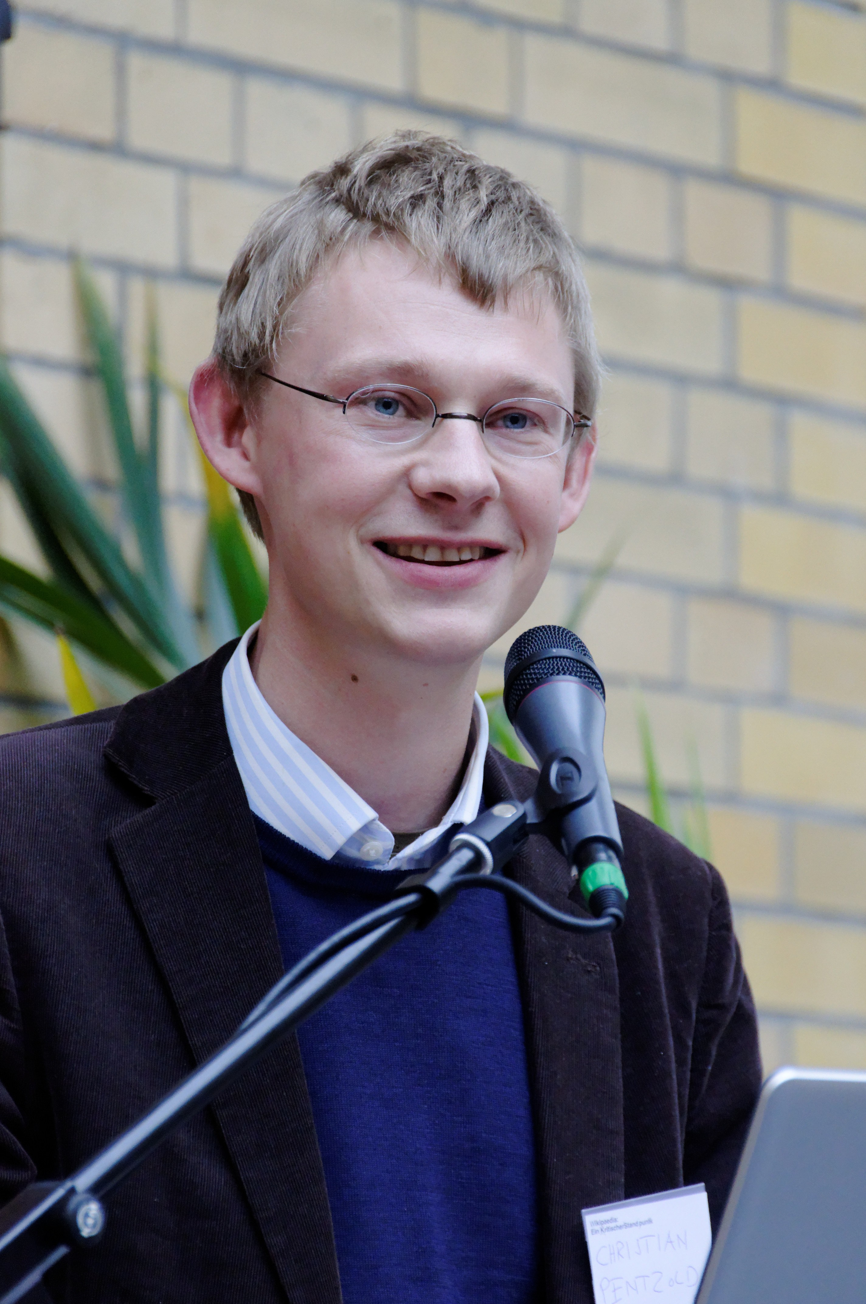 Wikipedia: A critical point of view. CPOV-Conference in Leipzig Germany; September 2010 Christian Pentzold